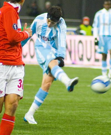 Samir Nasri